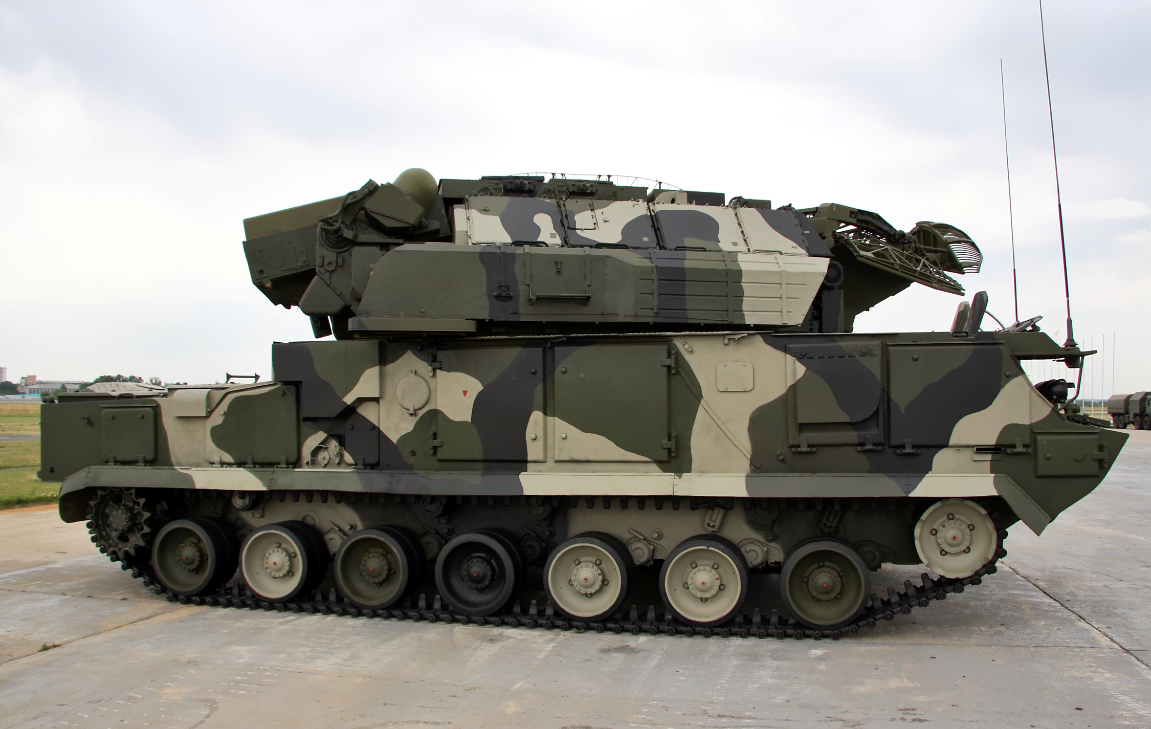 9A330 of the Tor-M1 air defence system.